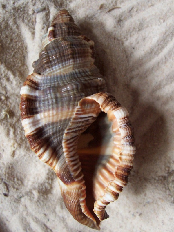 Monoplex macrodon (synonym : Cymatium pileare)